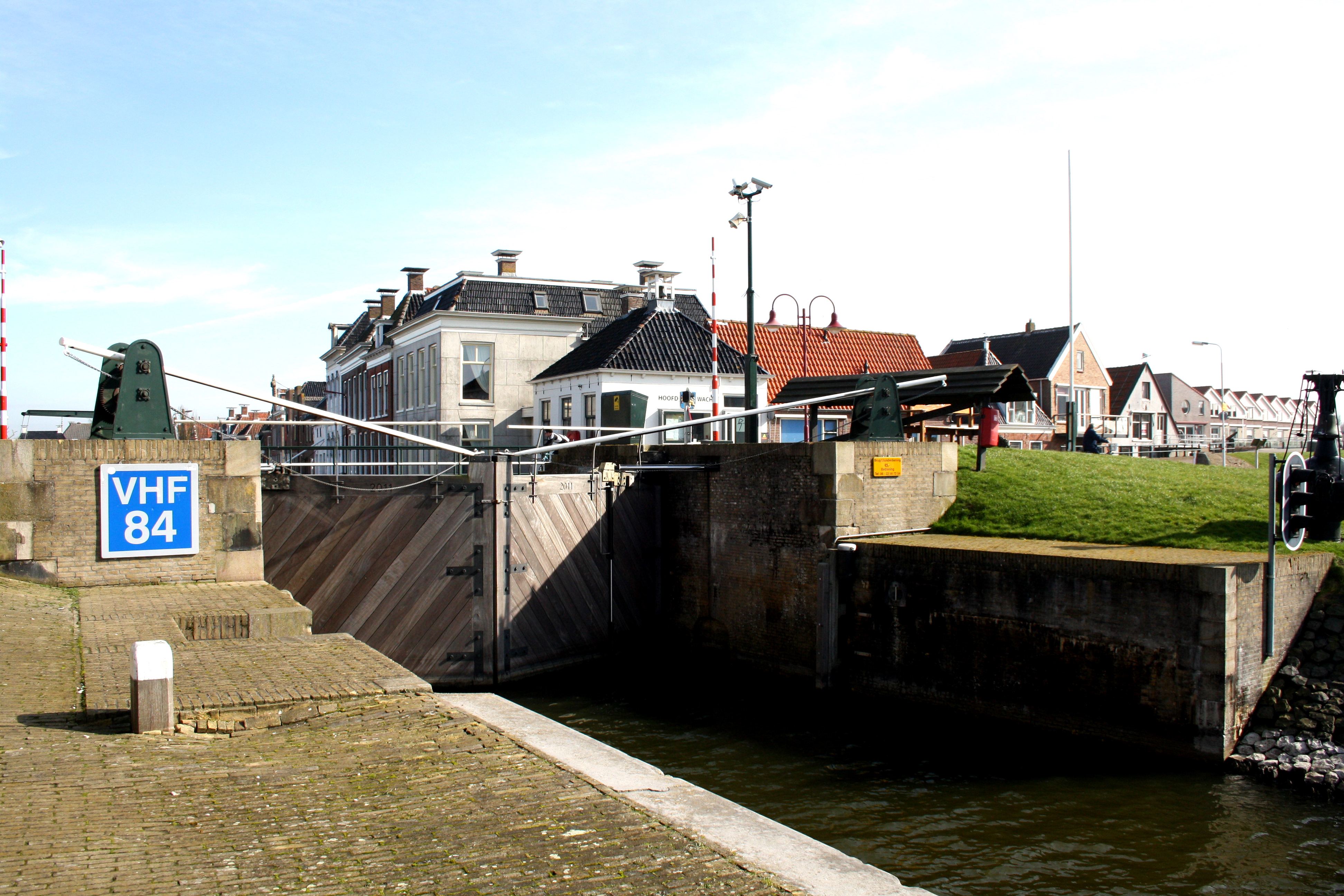 Canal lock in Makkum